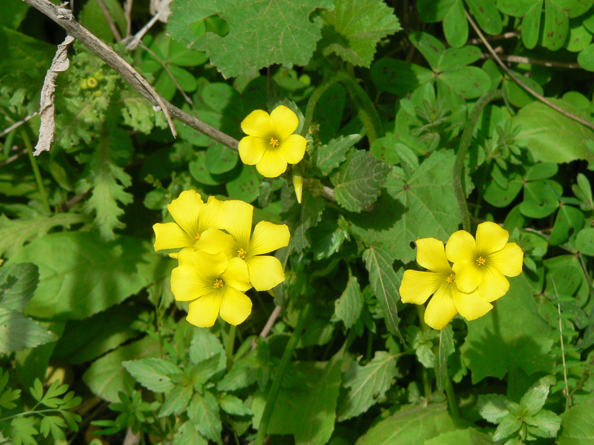 Oxalis pes-caprae Oxalis חמציץ Author: MathKnight